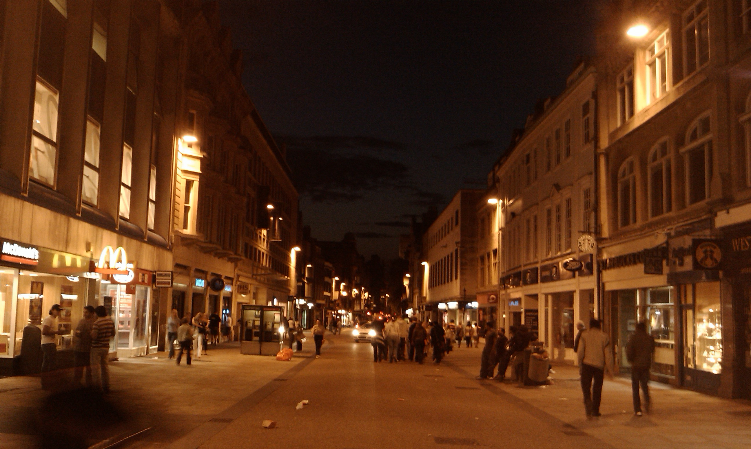 View north up Cornmarket Street, Oxford, England, looking from Carfax